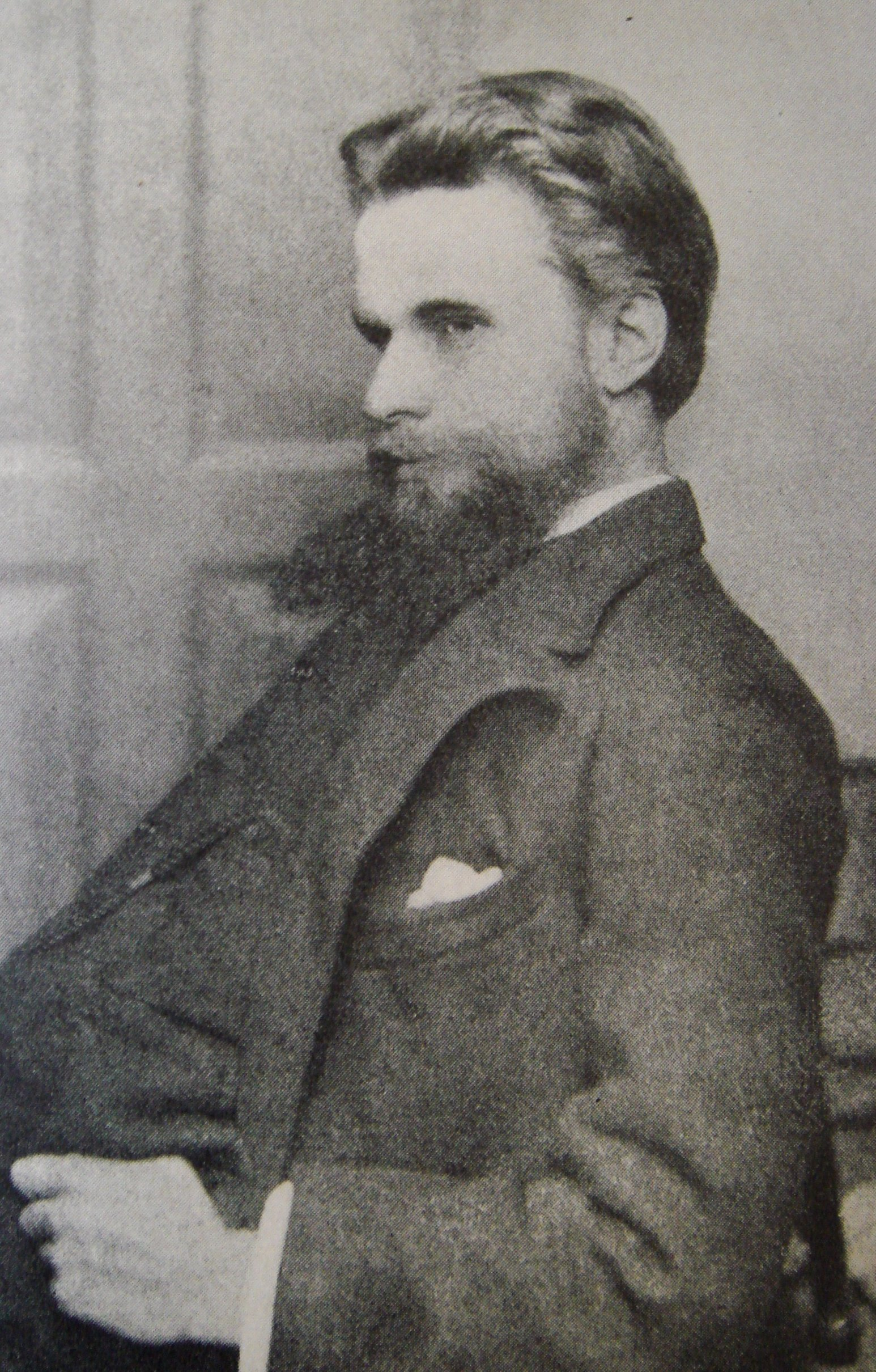 Havelock Ellis.